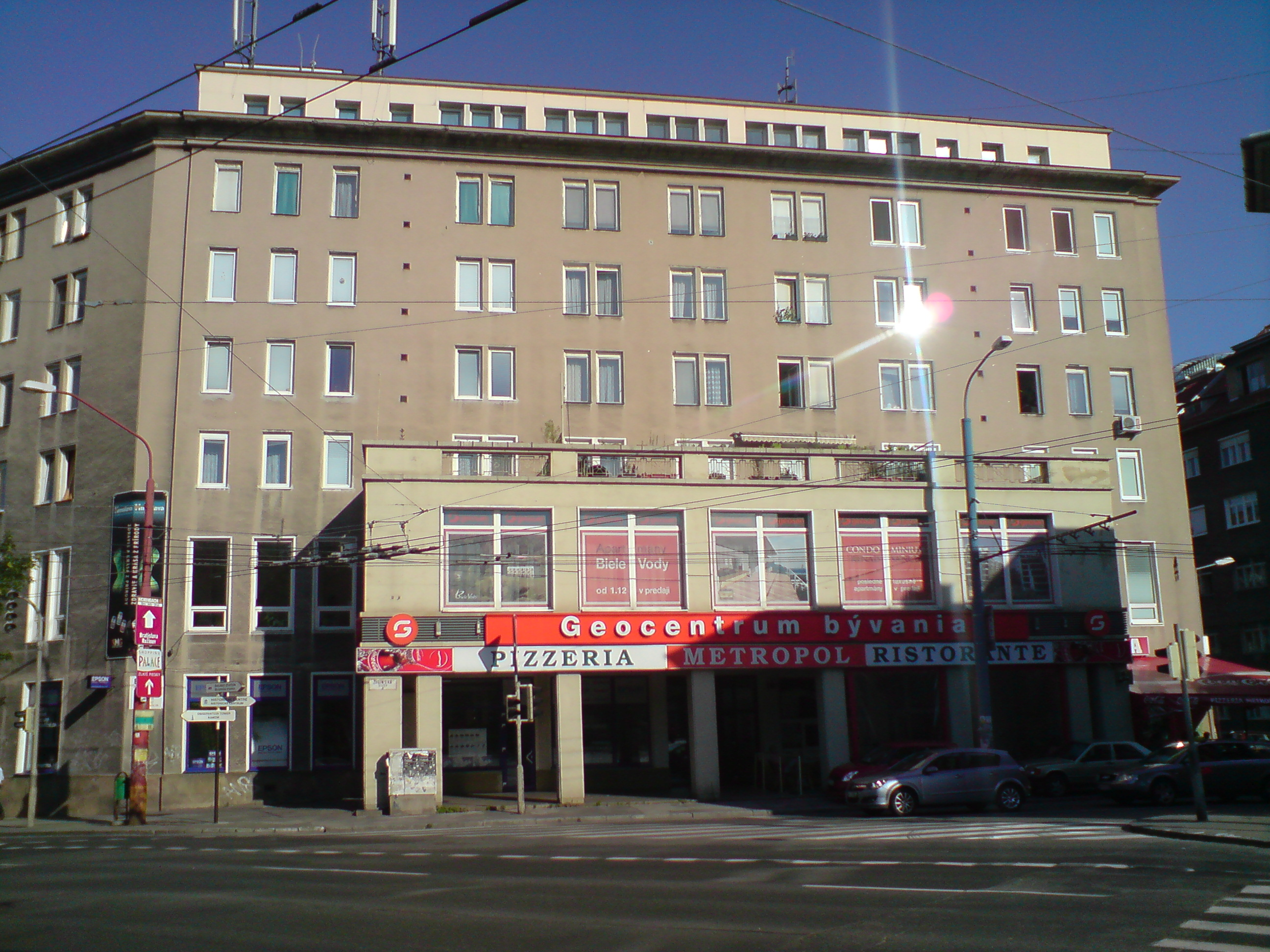 Metropol building, Žilinská street, Bratislava, Slovakia